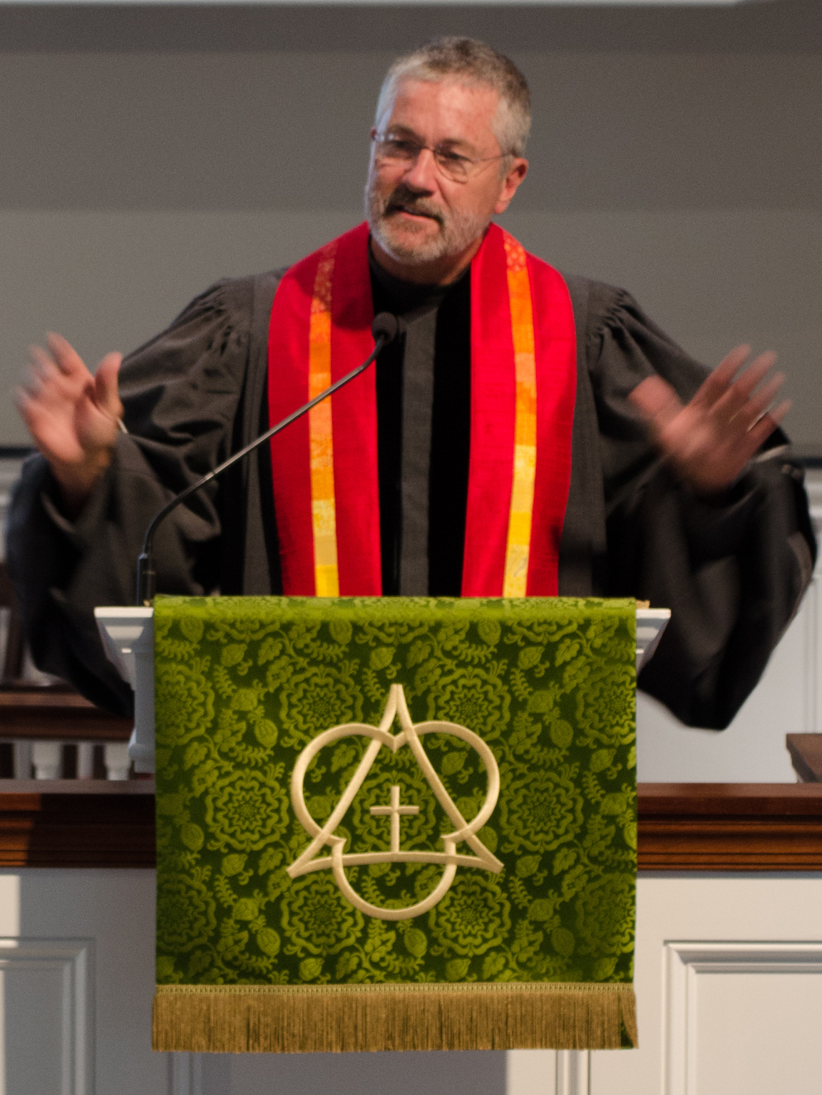 Robin Meyers preaching in the pulpit of Mayflower Congregational United Church of Christ in 2015. For use in the article Robin Meyers